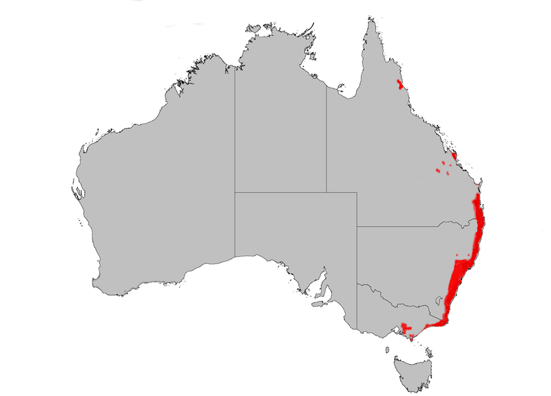 Distribution of the Banksia spinulosa -- based on information from the Banksia Atlas and Australian National Botanic Gardens web site, these have significant differences to each. This map is a conglomerate of those two favouring The Banksia Atlas as its maps are created from actual observations. Banksia Atlas includes observations in Carnarvon gorge (QLD) and other NP in the region that arent on the ANBG maps additional BA also has records of the plant growing further in land through central NSW region. BA also has no distribution between Lakes Entrance(VIC) and the Mornington Penninsula where as the ANBG shows distribution along the coast. ABNG has no dist in the Dandenong Ranges where as the BA shows extensive recording of the species. Where I varied to follow ANBG dist is the NSW/QLD border region where the AB has only spasmodic ares and ANBG has complete dist. Base map of Australia was File:Australia map, States.svg